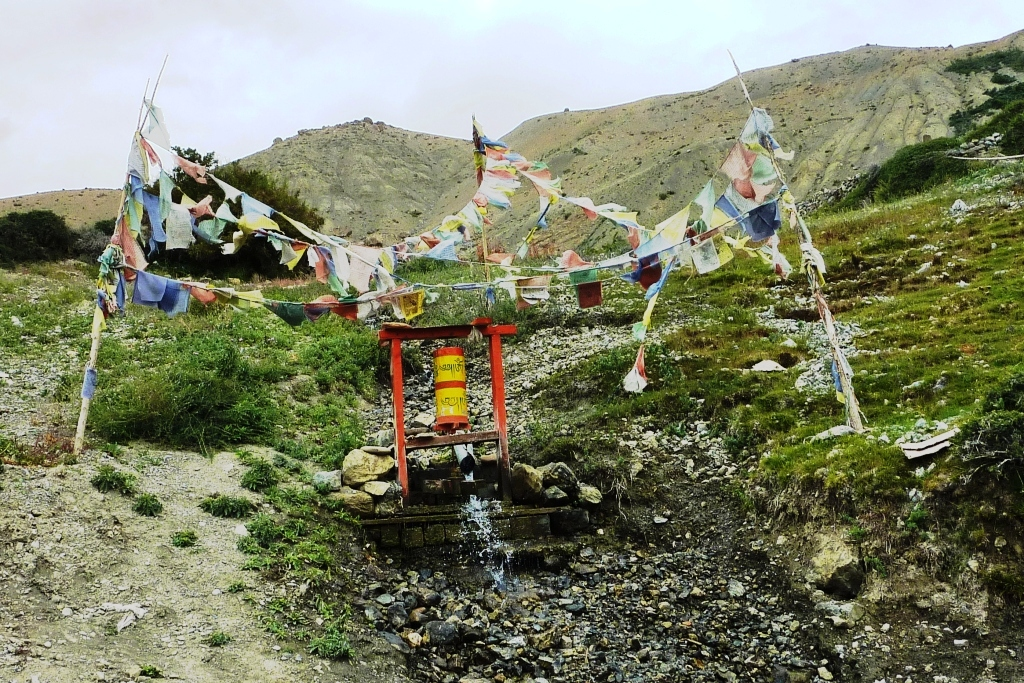 I took this photo of a water-powered prayer wheel beside the road in Spiti, H.P., India last year